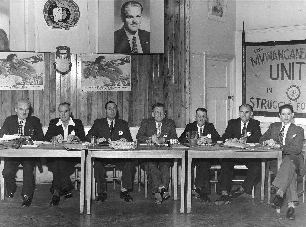 photograph of the Committee of Management of the Seamen's Union of Australia